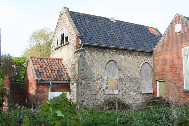 St James Guild Chapel Attached to the school (disused) the chapel was used by the Hatters Guild. St James is the Patron Saint of hatters.